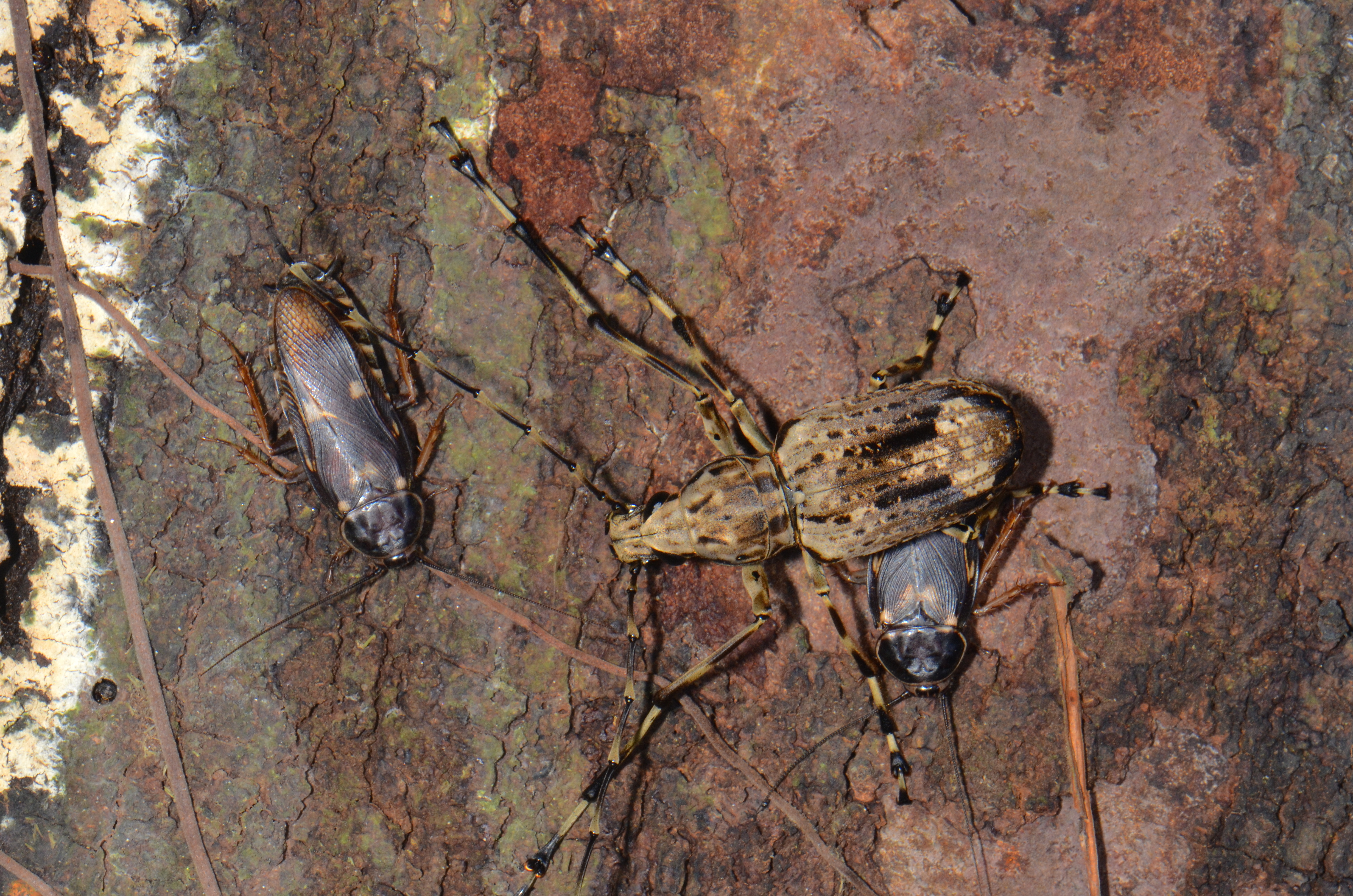 Thanks to Gerry for ID